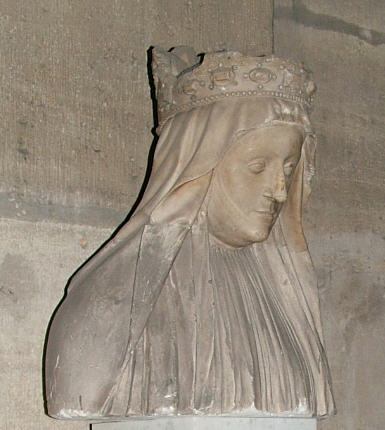 Marie of Anjou